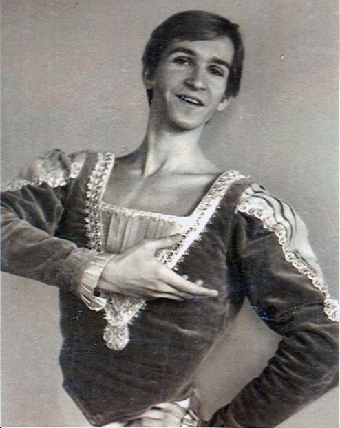 Stas' Kmiec' - Boston Ballet, in the dressing room taken with a tripod - author Stas' Kmiec'